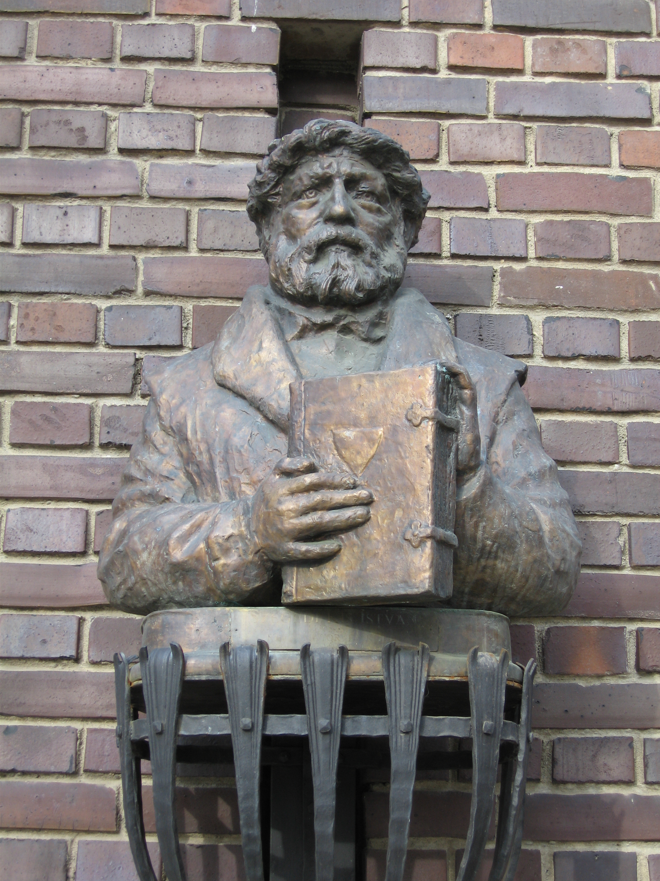 Szeged, Bust of Szegedi Kis István